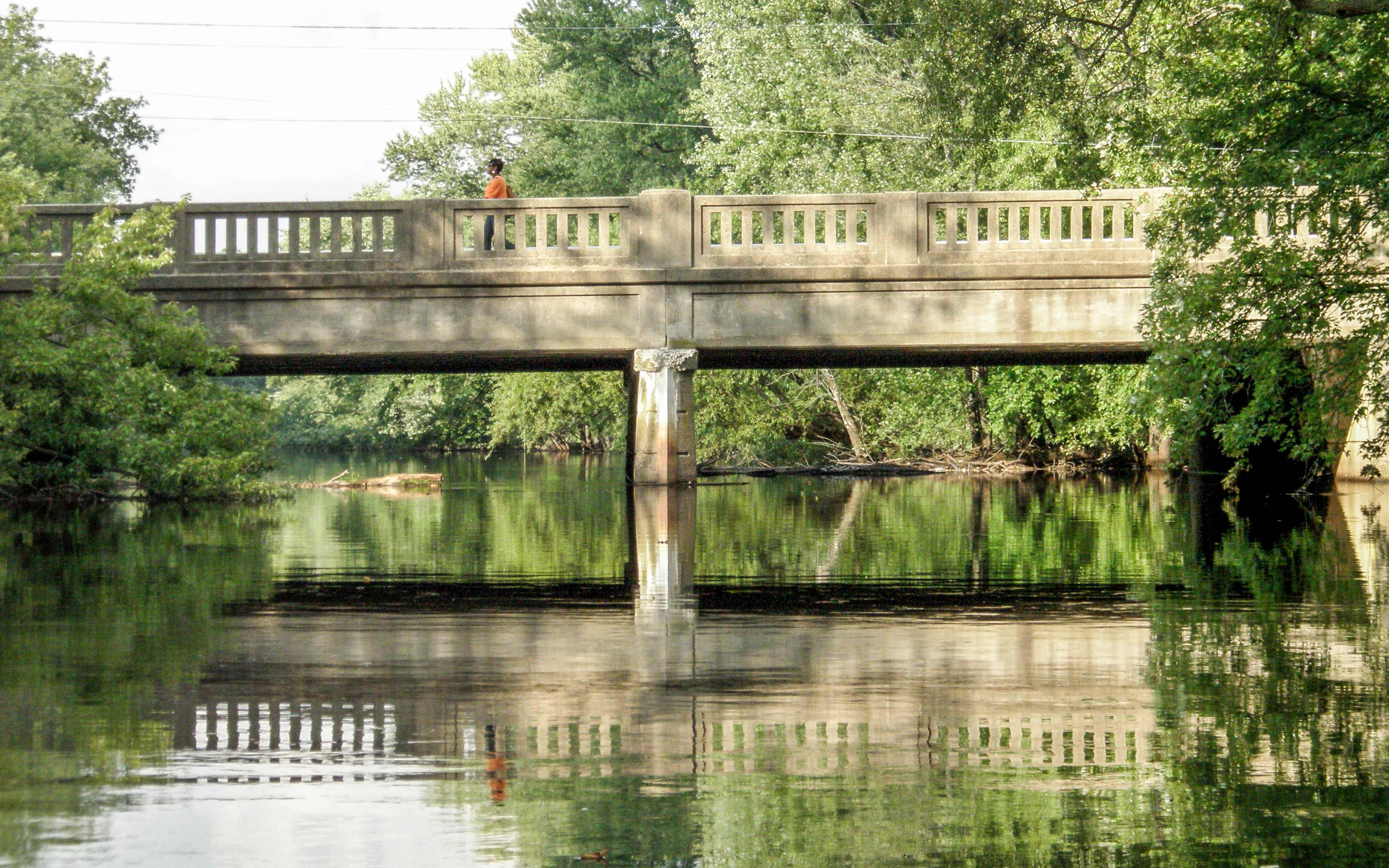 Old NJ Route 10 Bridge over the Passaic River, East Hanover - Livingston, New Jersey (looking north by kayak)